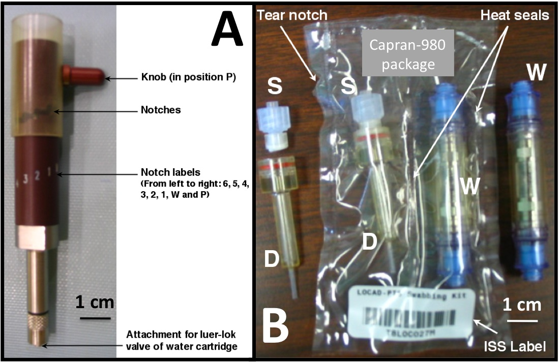 The Lab-On-a-Chip Applications and Development Portable Test System (LOCAD-PTS) sample handling or 'swab' system. It consists of (A) a 'swab unit' or pipette and (B) a swab kit, consisting of a water cartridge (WC), swab tip (S) and dispensing tip (D).